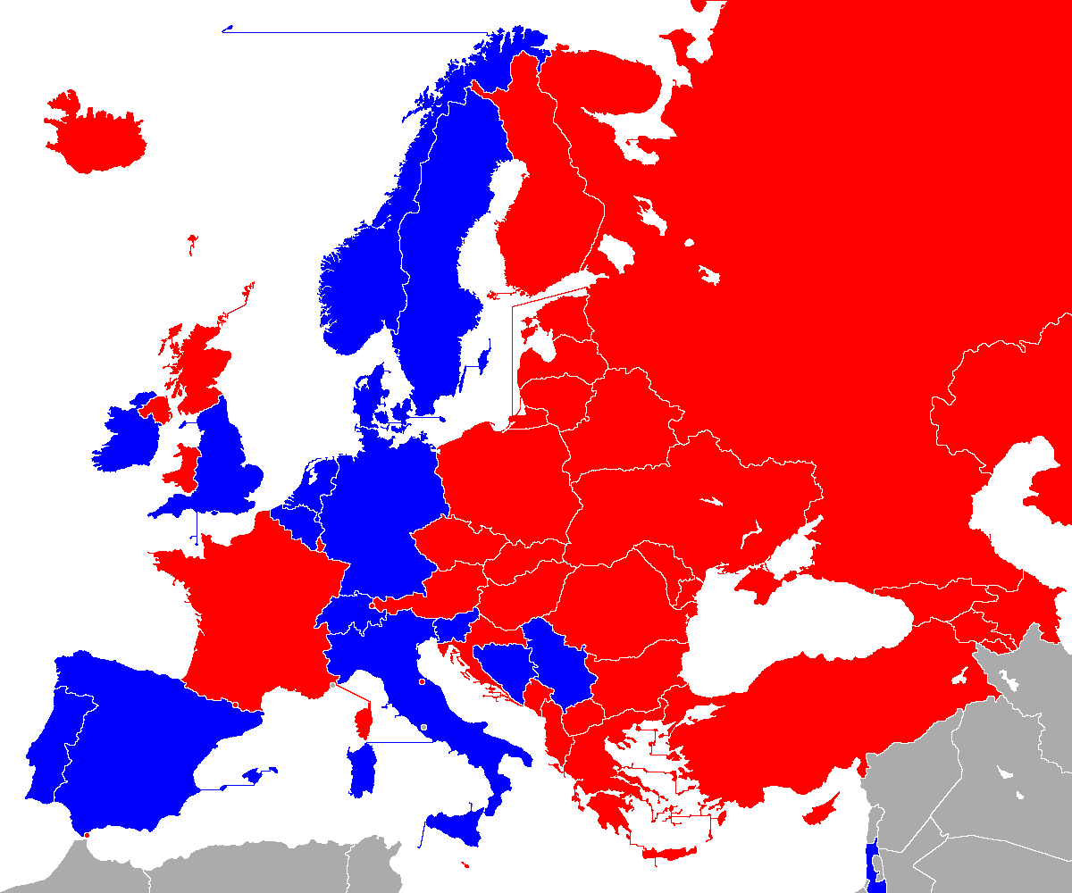 2018 EURO U-17 Qualifiers Map